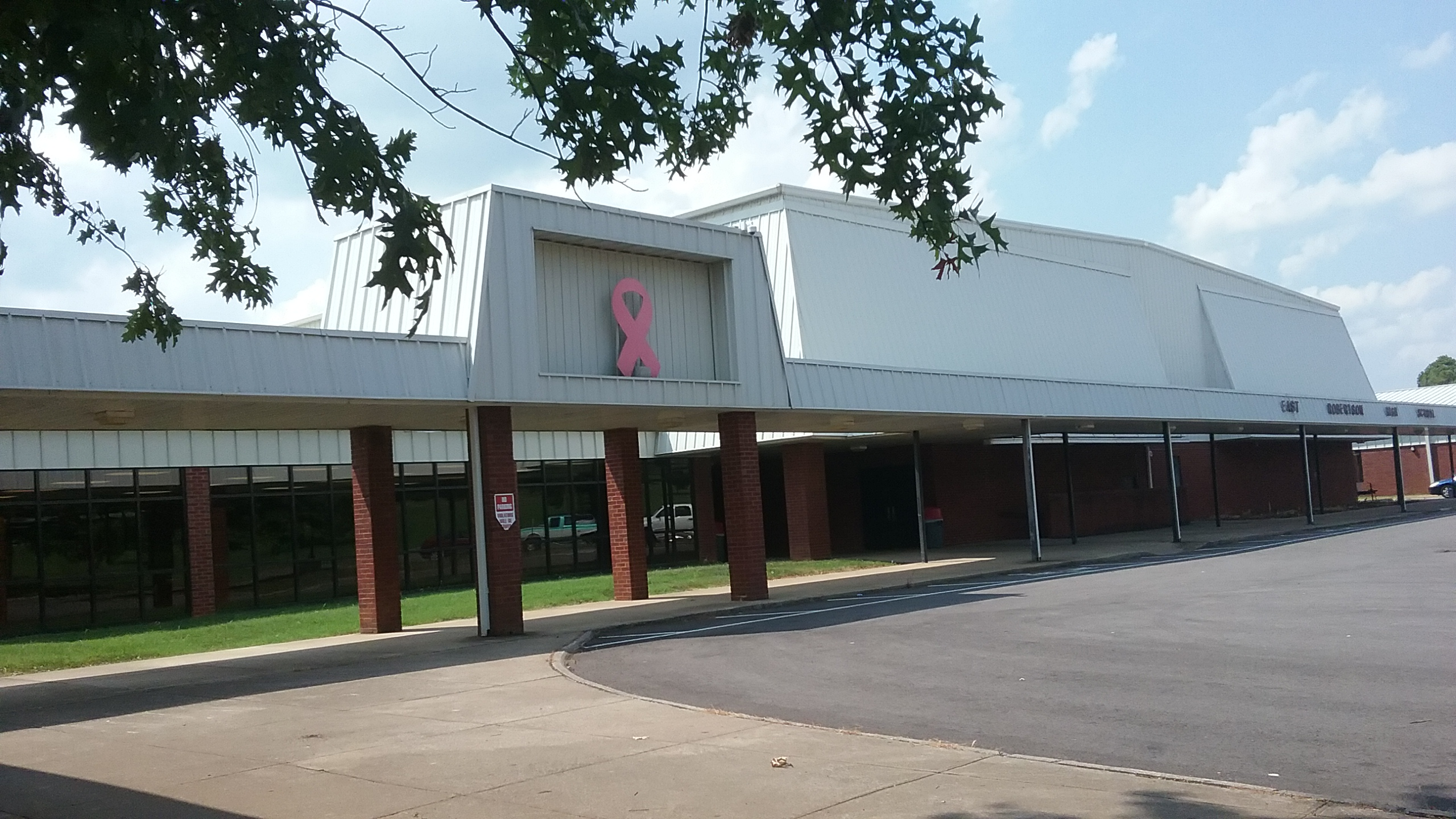 The sign was placed in 2013 due to Mary Cook's cancer